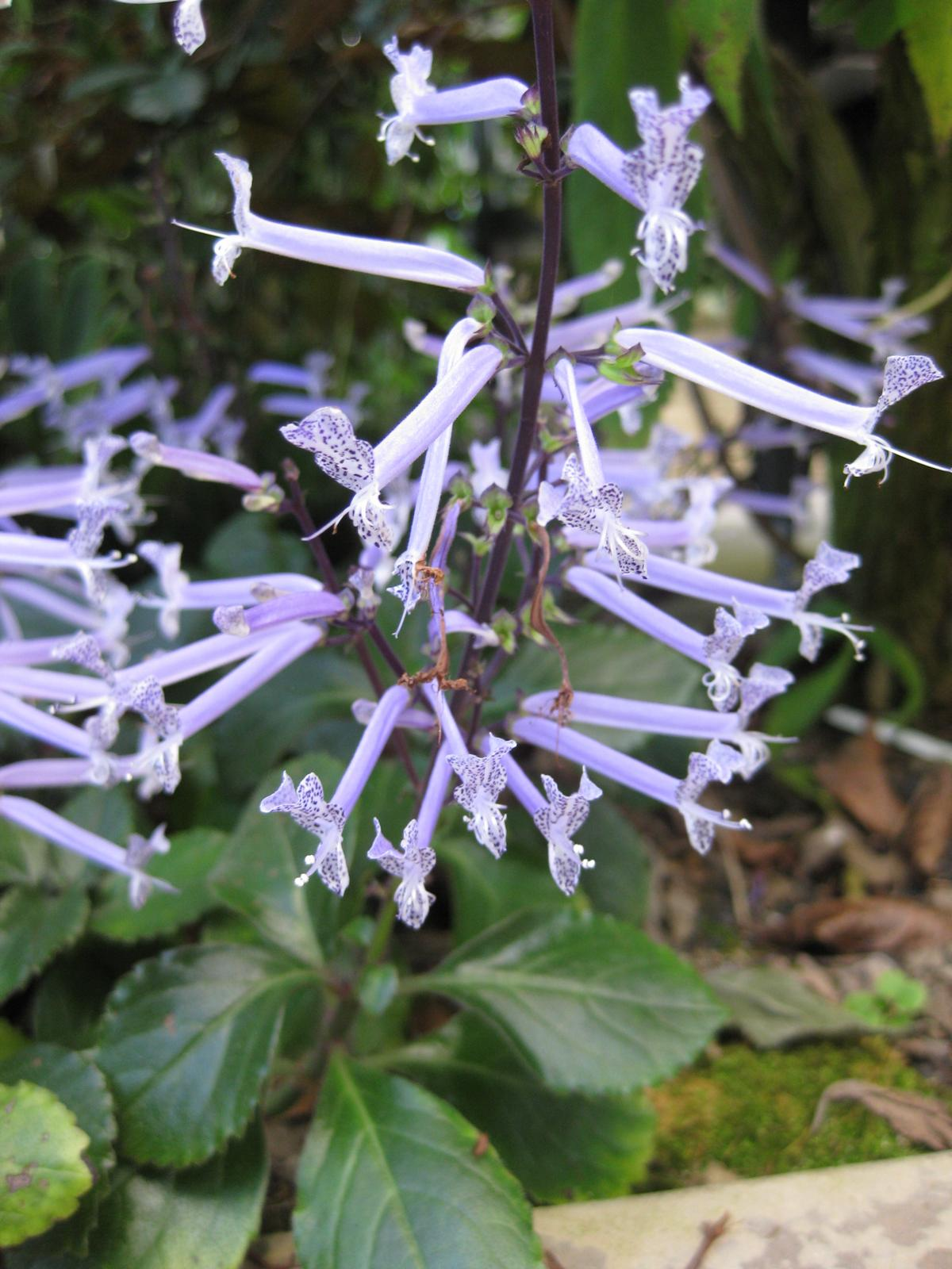 Photographed at Huntington Gardens (Los Angeles, California) in August